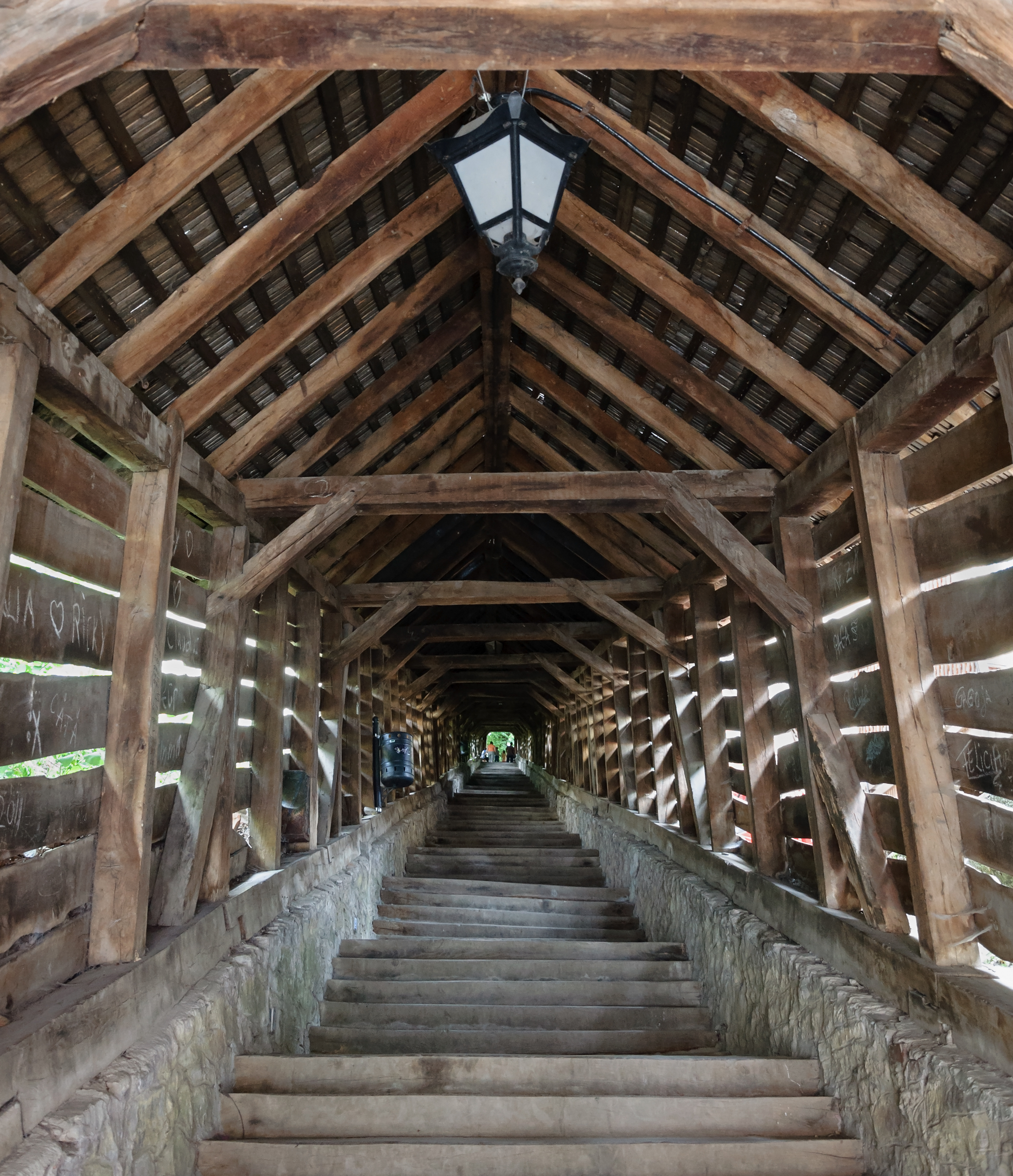 Inside the covered staircase leading to the church and to the former school on the Hill in Sighişoara, Romania